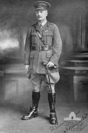 A portrait of Major General E.G. Sinclair MacLagan, 4th Australian Division, AIF.